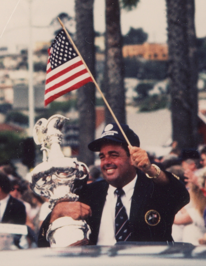 Dennis Conner, a San Diegan and four time winner of the America’s Cup, brought the prized Cup home to American soil and San Diego in 1987 after winning the Cup back from Australia.